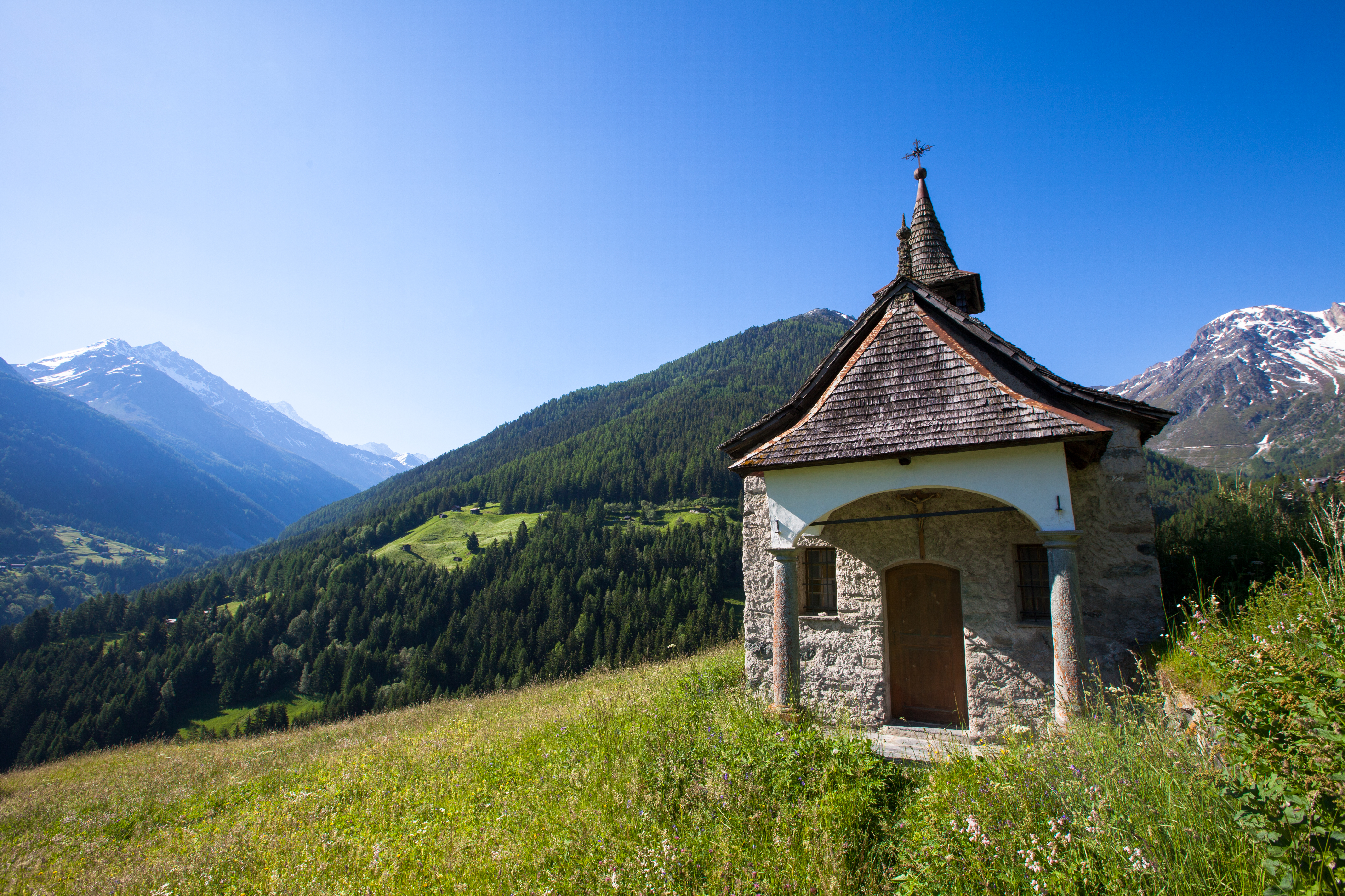 Grimentz - Tourism in Valais